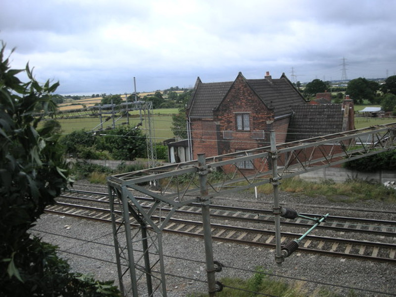 Bulkington Station. Now hidden by electrification gantries is indeed a private house and must be extremely noisy!